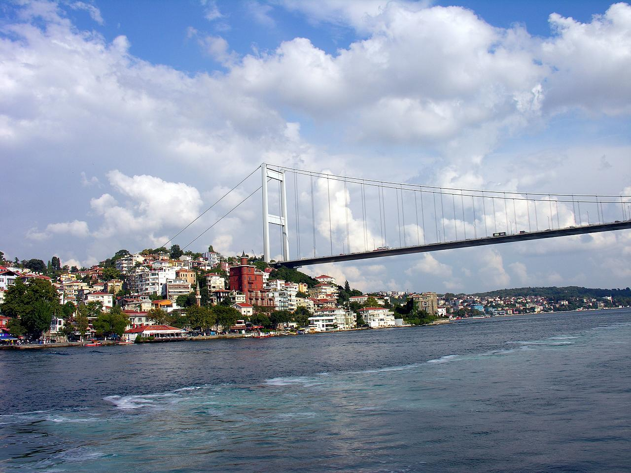 Fatih Sultan Mehmet Bridge